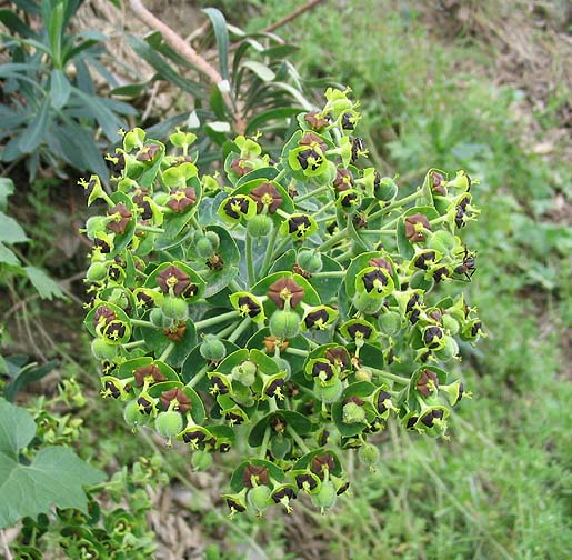 A work released per the GNU Free Documentation License by: Photo Jean Tosti (12/04/04) French Wikipedia page